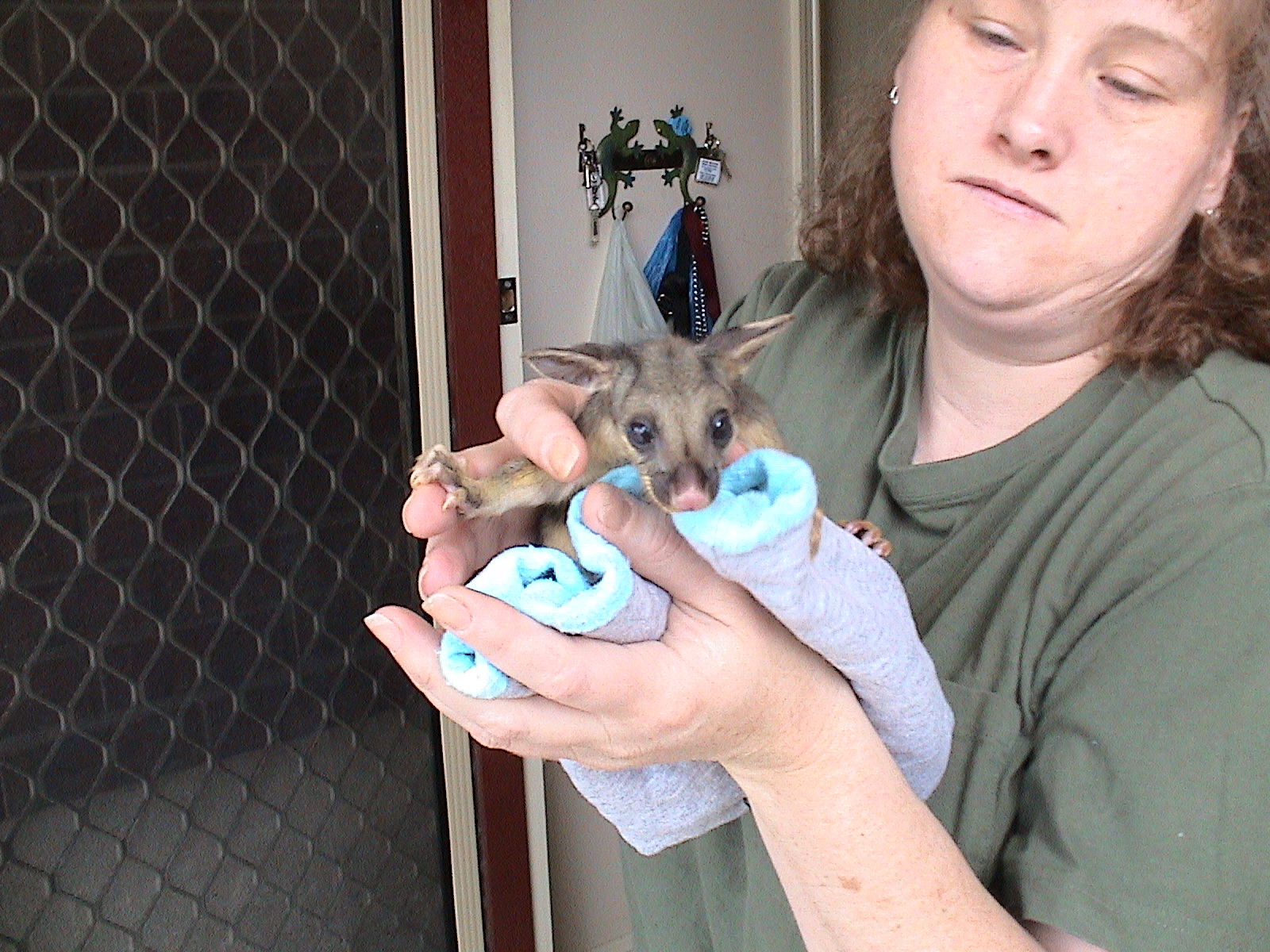 Abandoned baby common brushtail possum (Trichosurus vulpecula) being handed to a Fauna Rescue volunteer after being found in my backyard in Adelaide, South Australia.